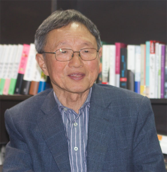 Shin Kyeong-nim at SIBF 2014